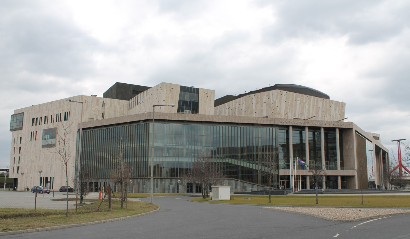 Palace of Arts, Budapest